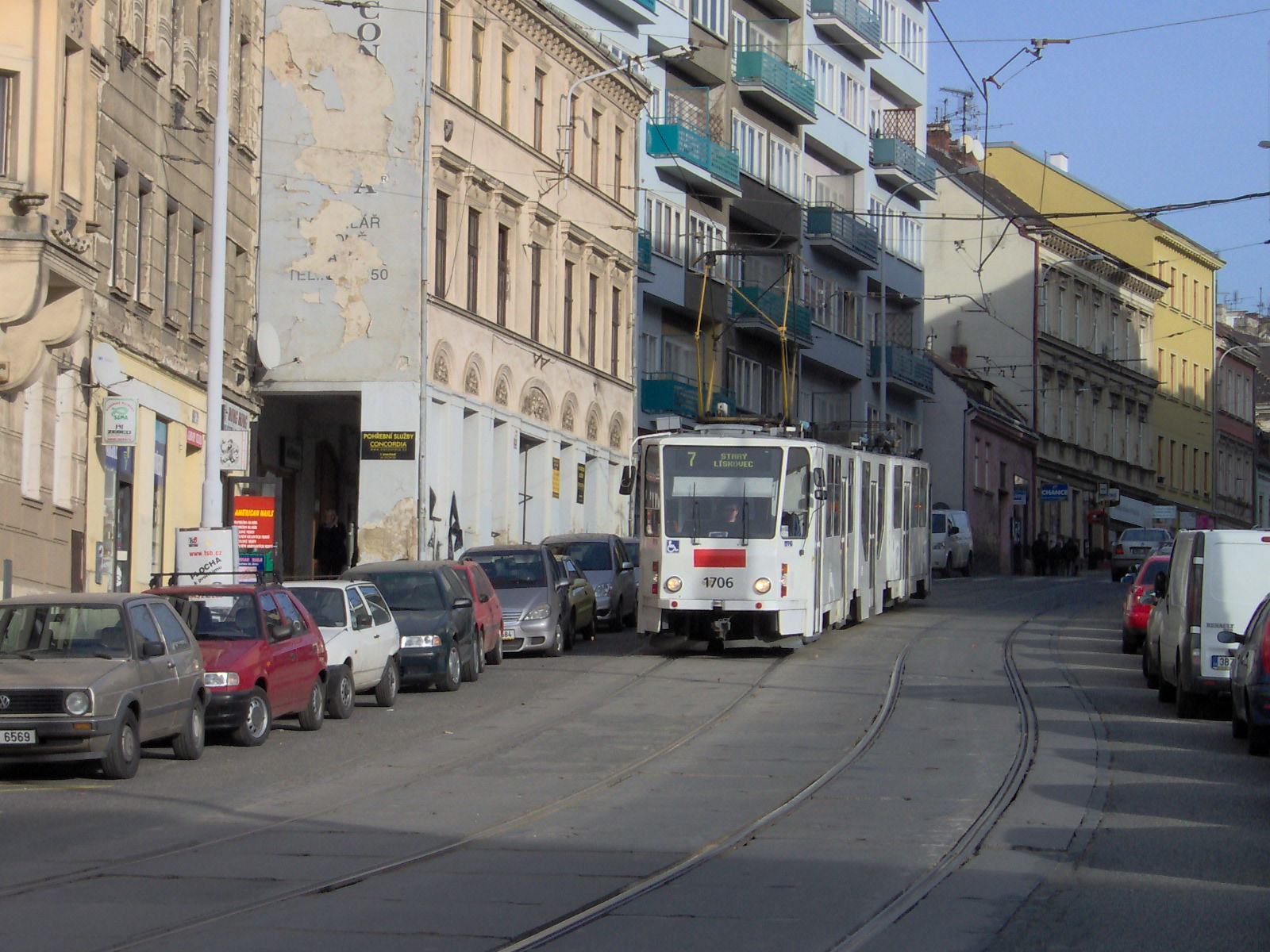 Tram track in Pekařská street, Tatra KT8D5R.N2 tram Česky: Tramvajová trať v Pekařské ulici, tramvaj Tatra KT8D5R.N2